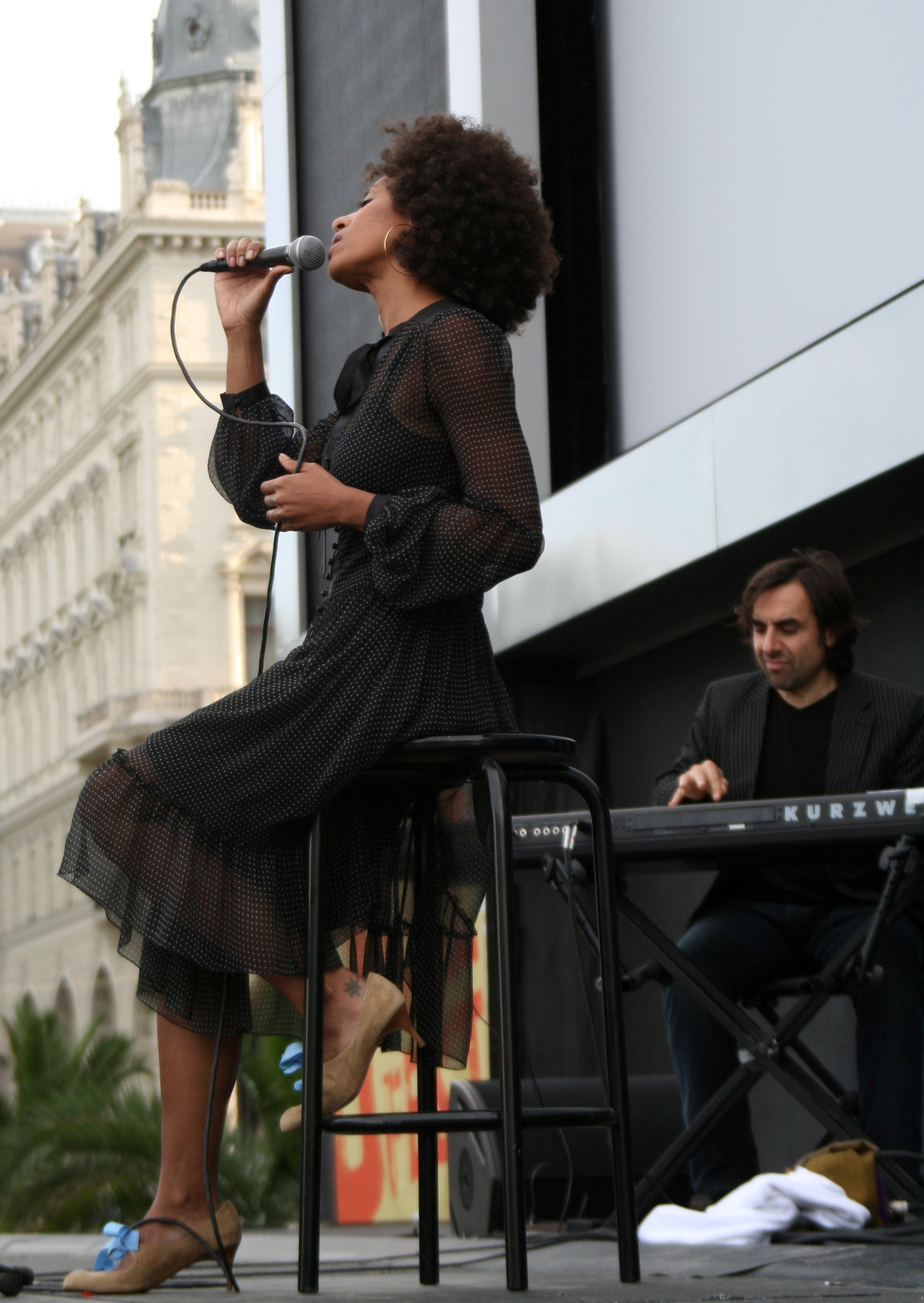 Singer Malia at the Rathausplatz in Vienna; keys: André Manoukian (Jazz-Fest Wien)